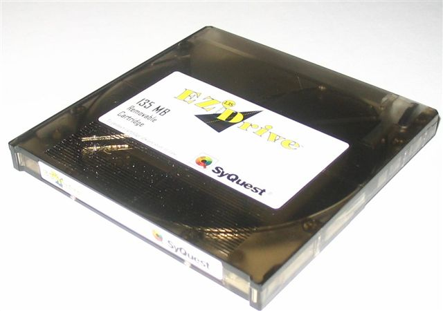 SyQuest EZ 135 Drive Removable Hard Disk Cartridge Author: Ckmac97 Date: 05/06/2006